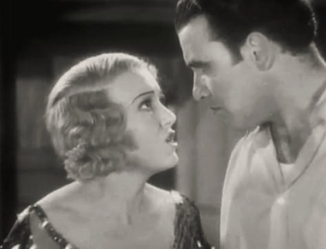 Vivienne Osborne & Preston Foster in Two Seconds - trailer (cropped screenshot)